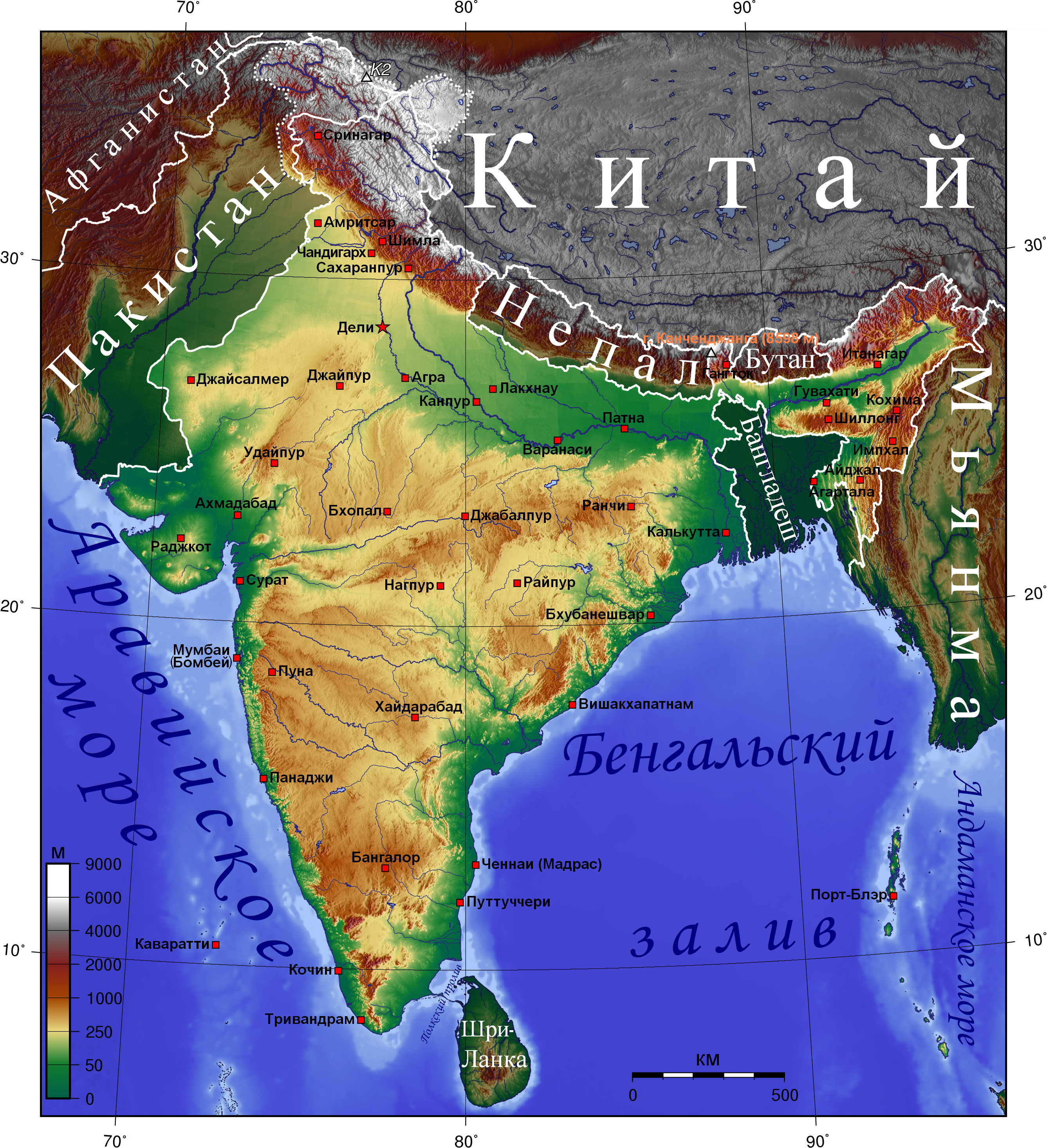 variant of file File:India topo big.jpg